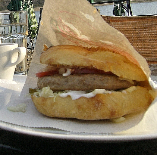 Pljeskavica sandwich